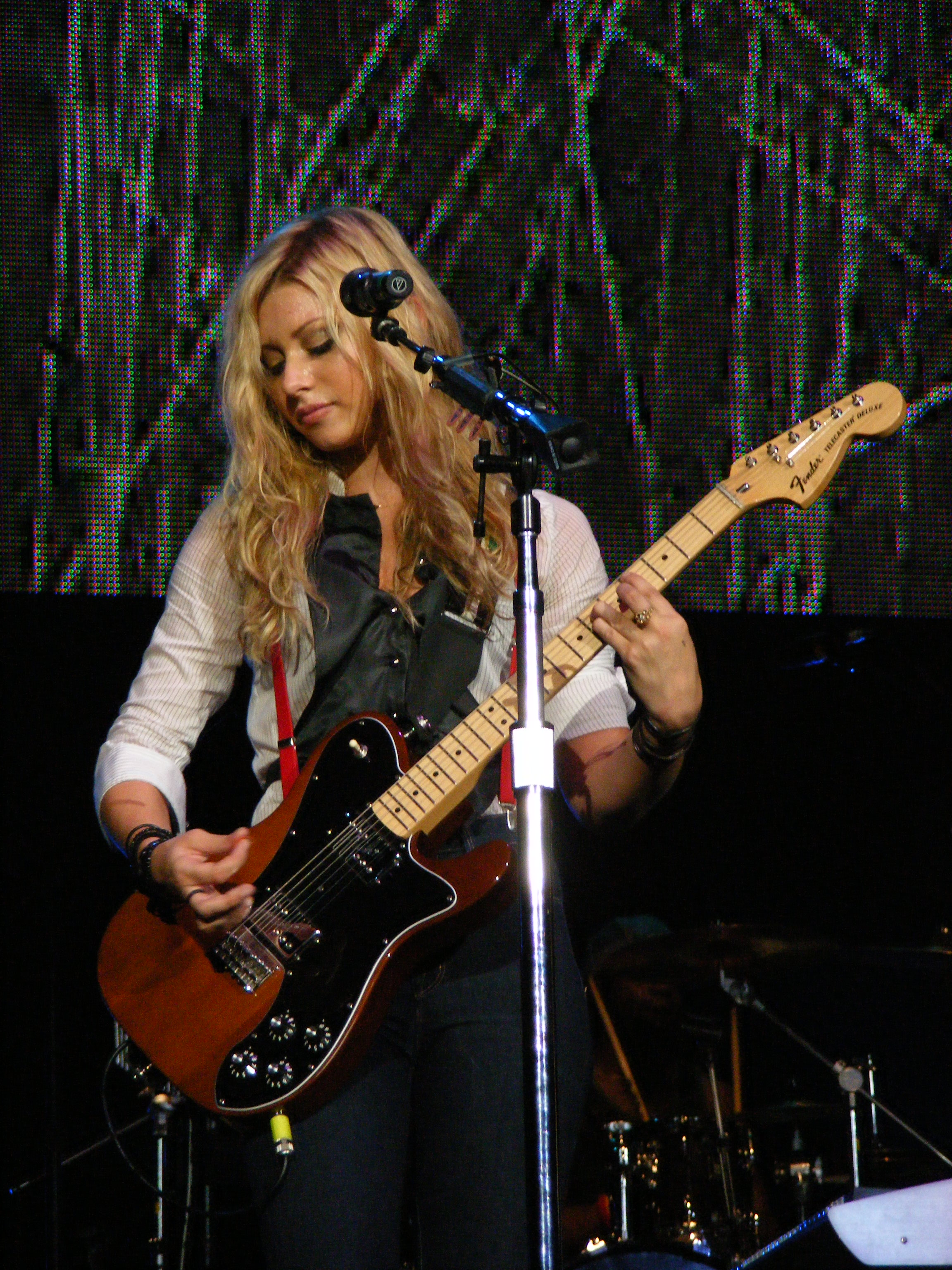 Alyson Renae (Aly) Michalka - August 2007